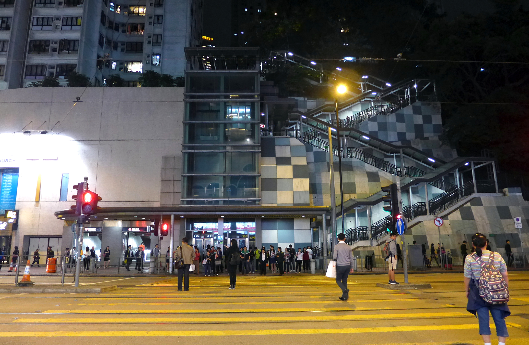 Fortess Hill Lift to Braemar Hill